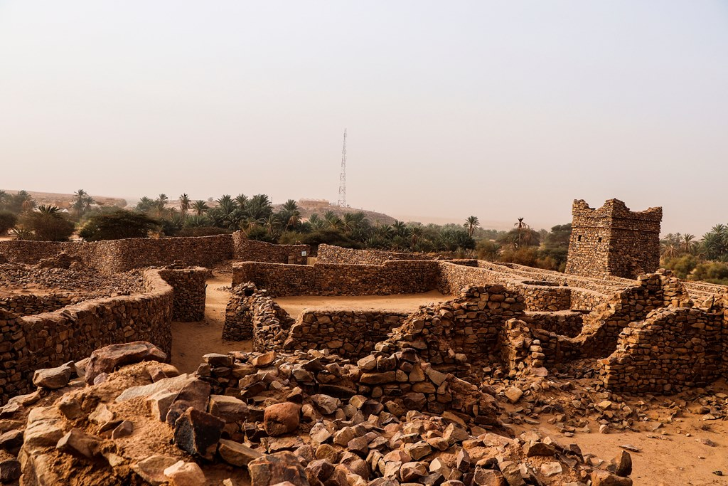 Ouadane: View of old town